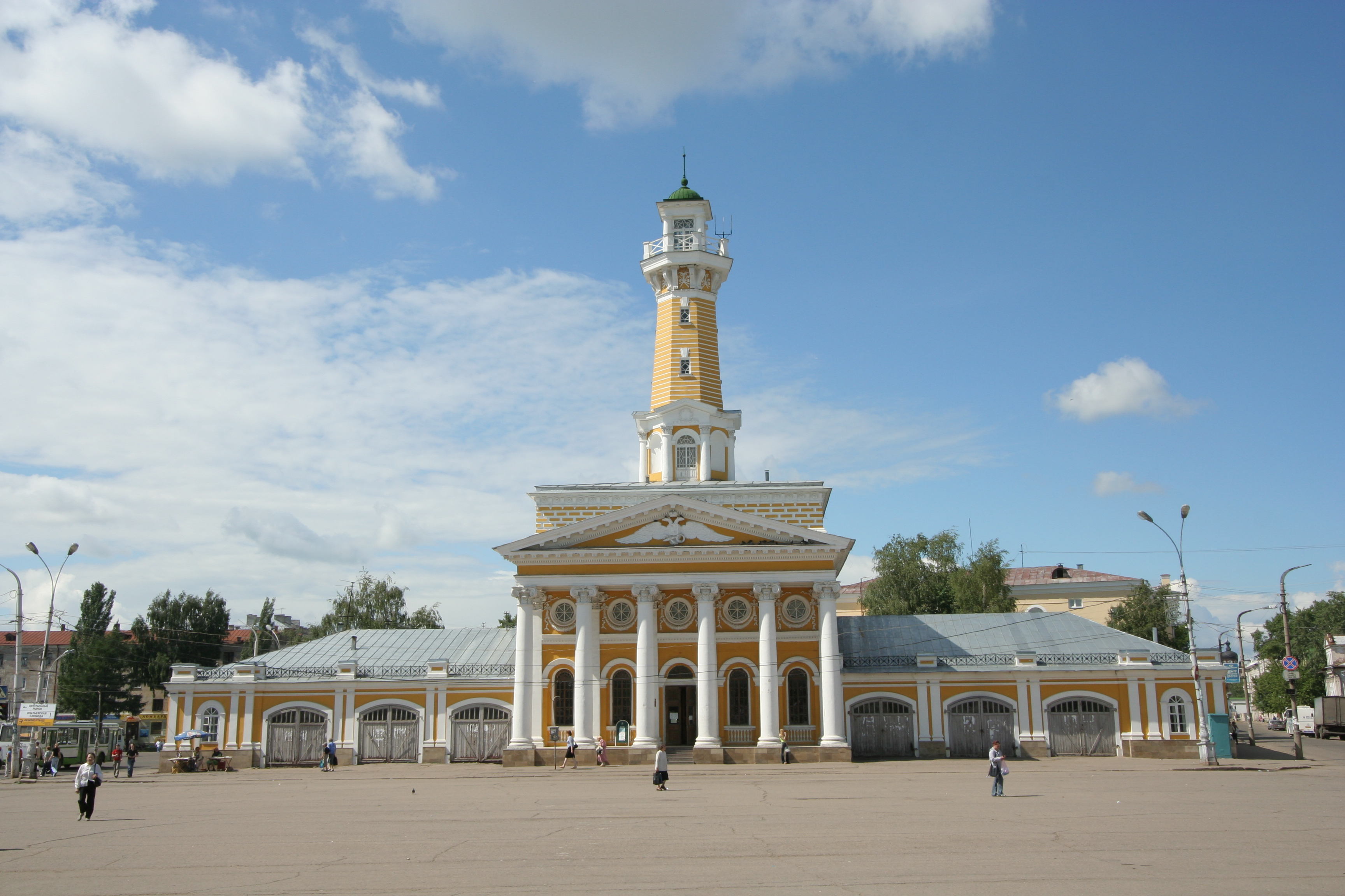 The old watchtower of Kostroma